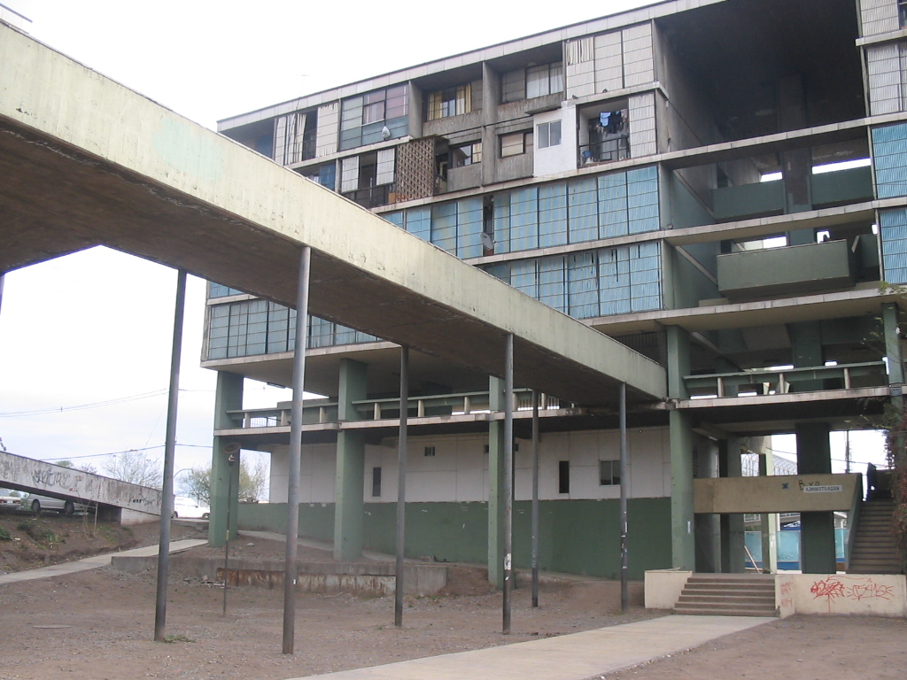 Unidad Vecinal Portales: Building no. 1 Villa Portales. Administracion center.